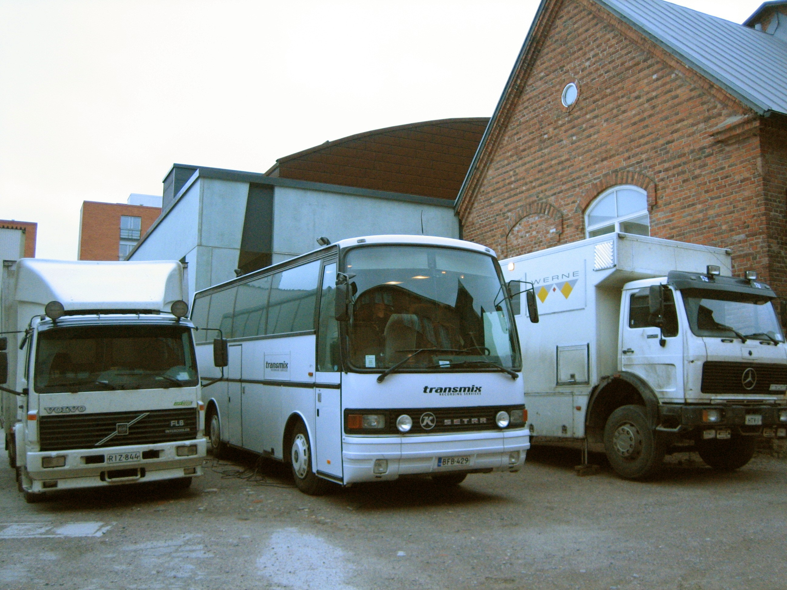 Outside production vehicles: equipment van, sound van, TV production van.